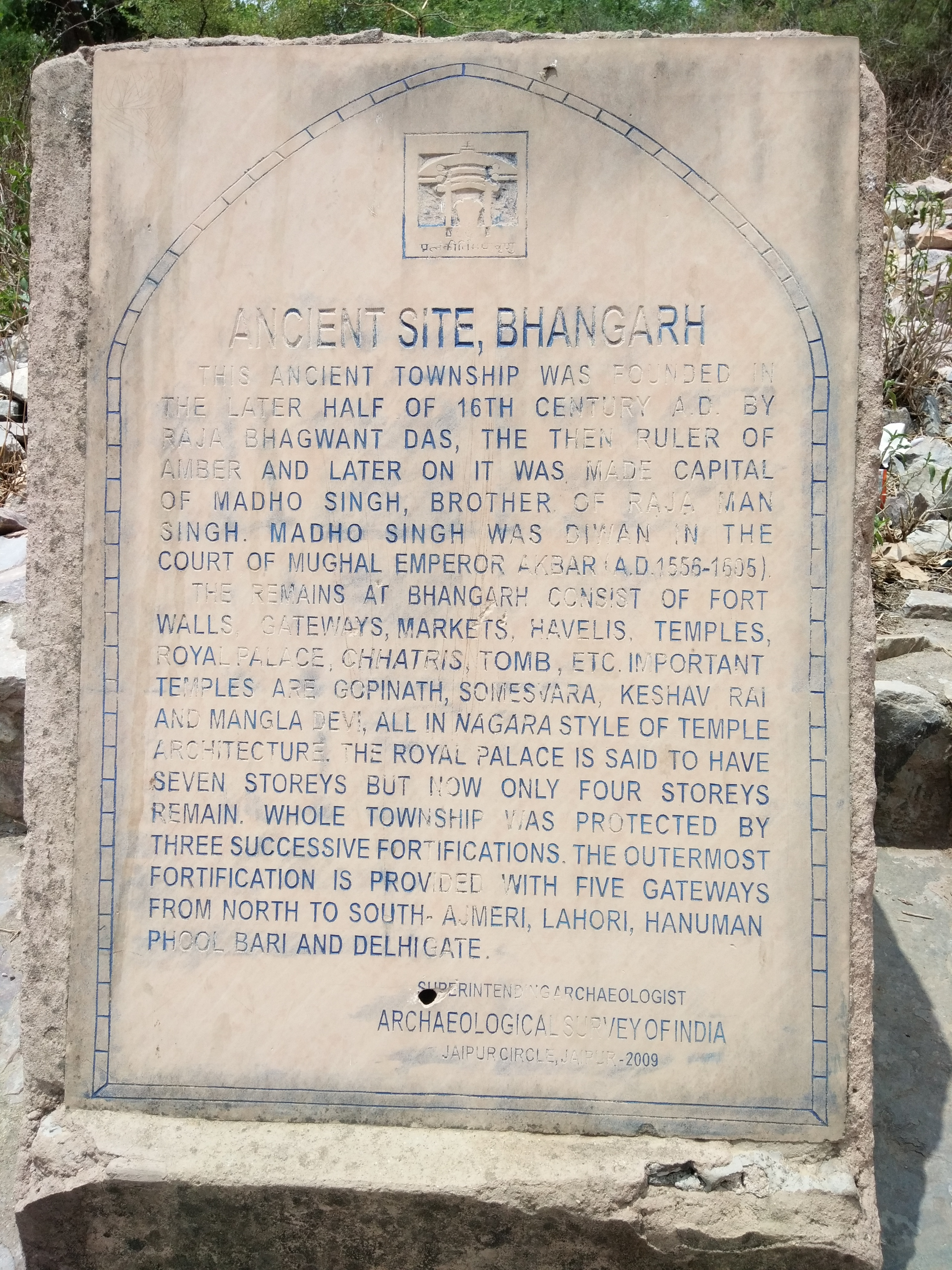 Notice board put up by the Archaeological Survey of India at the entrance.